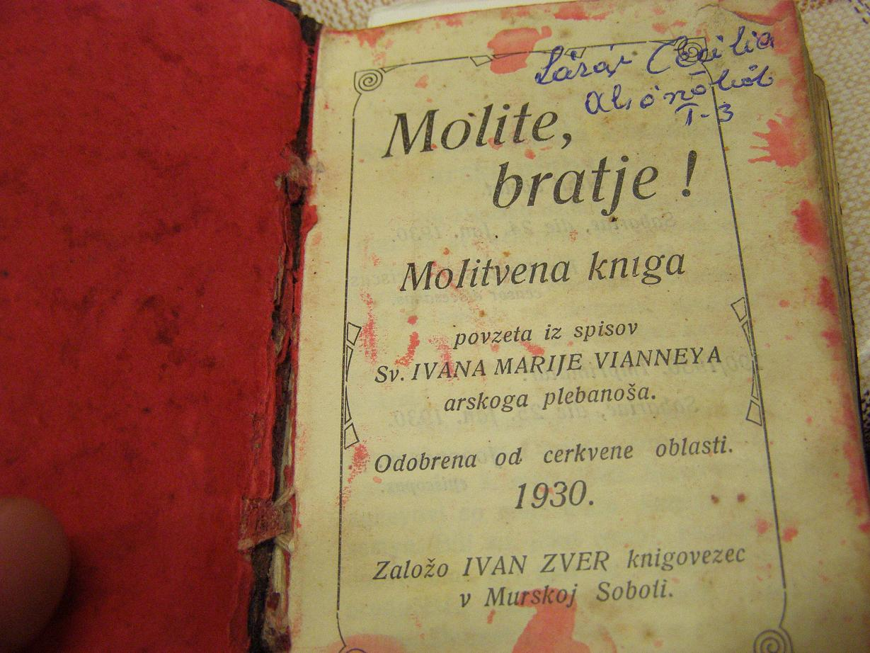 Molite bratje! – prayer-book in 1930, by József Szakovics